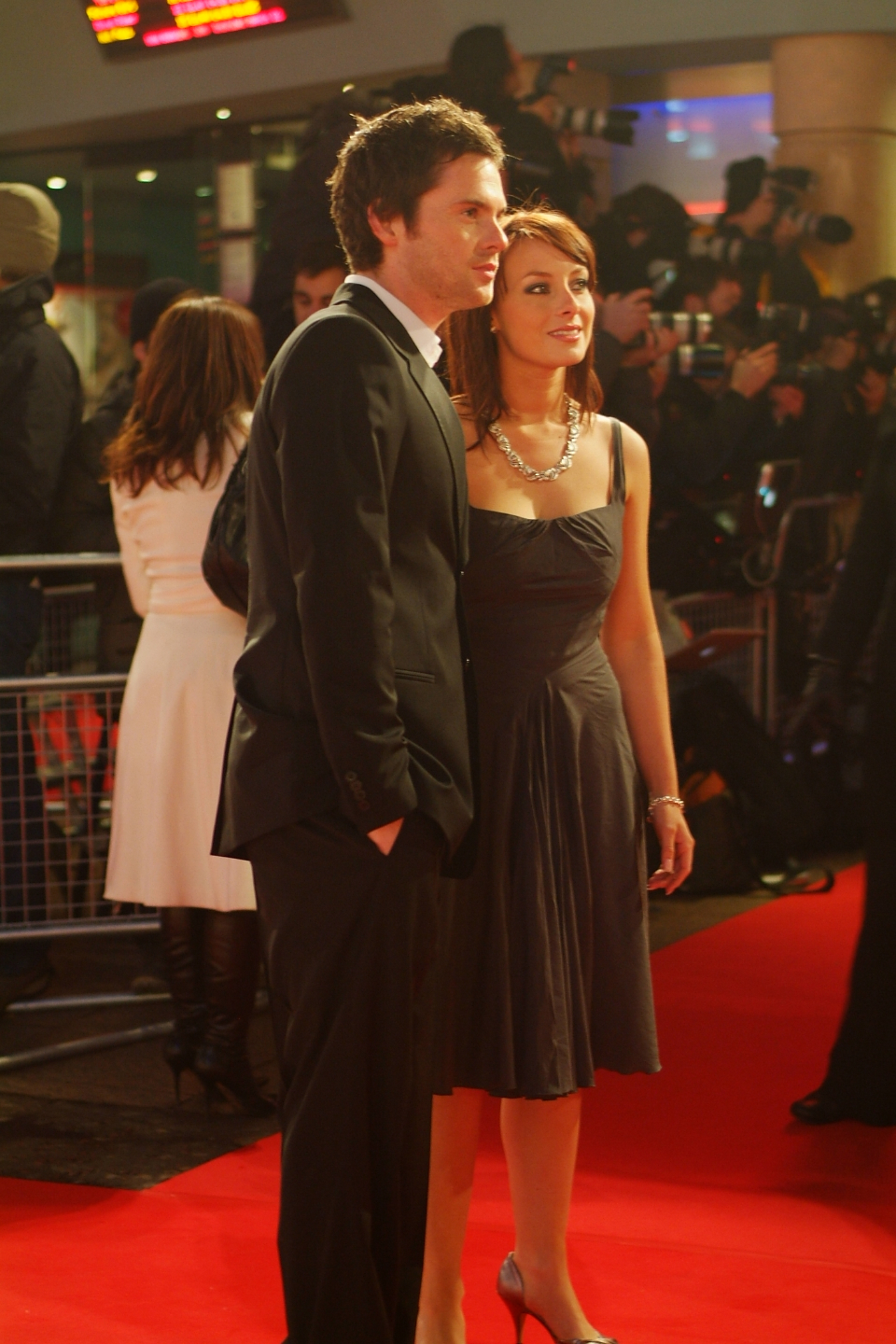 Tom Riley and companion at the I want Candy London Movie Premiere